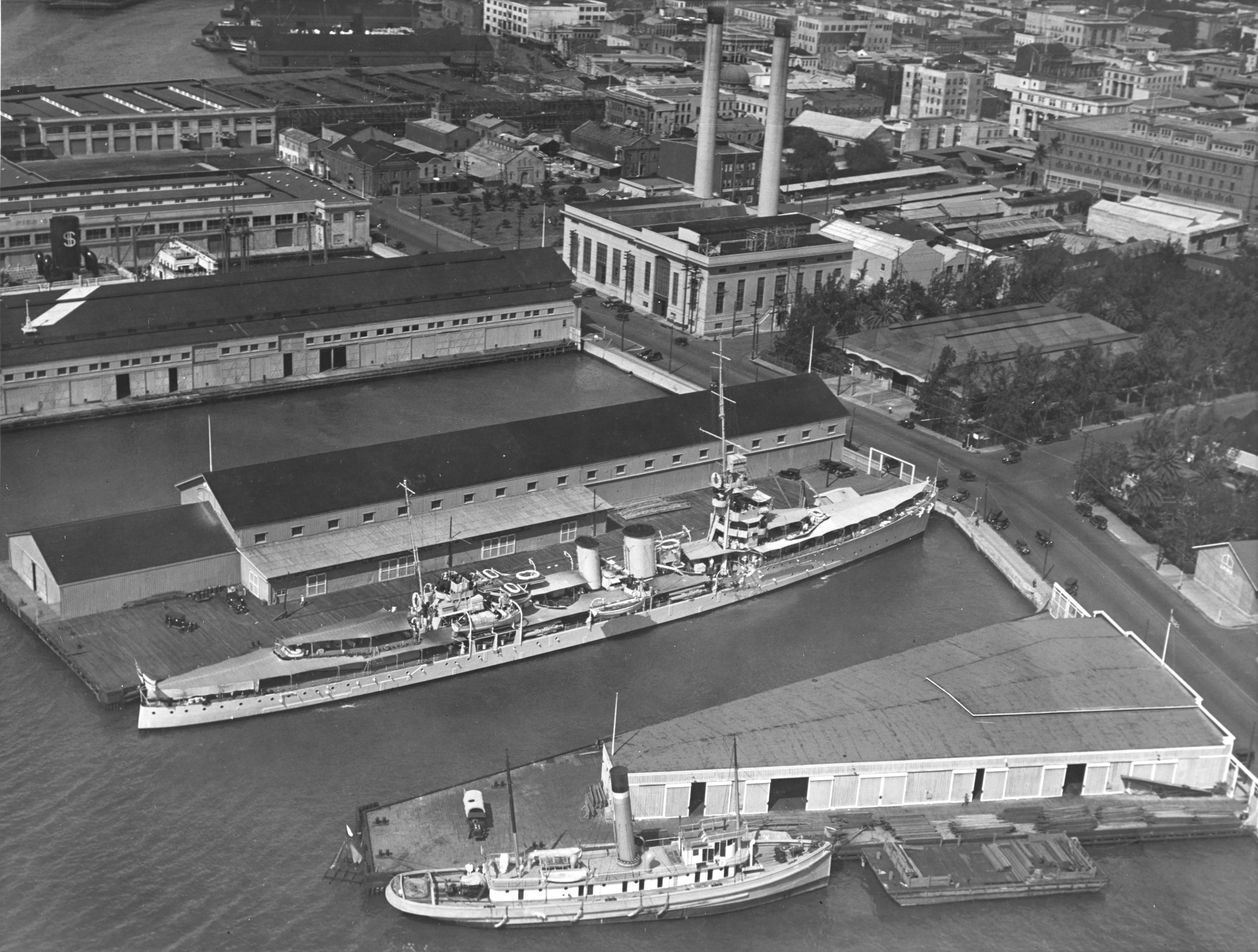 The Royal Navy light cruiser HMS Dunedin (D93) at Honolulu, Oahu, Territory of Hawaii, on 11 February 1927. A Dollar Steamship Company vessel is visible in the background.